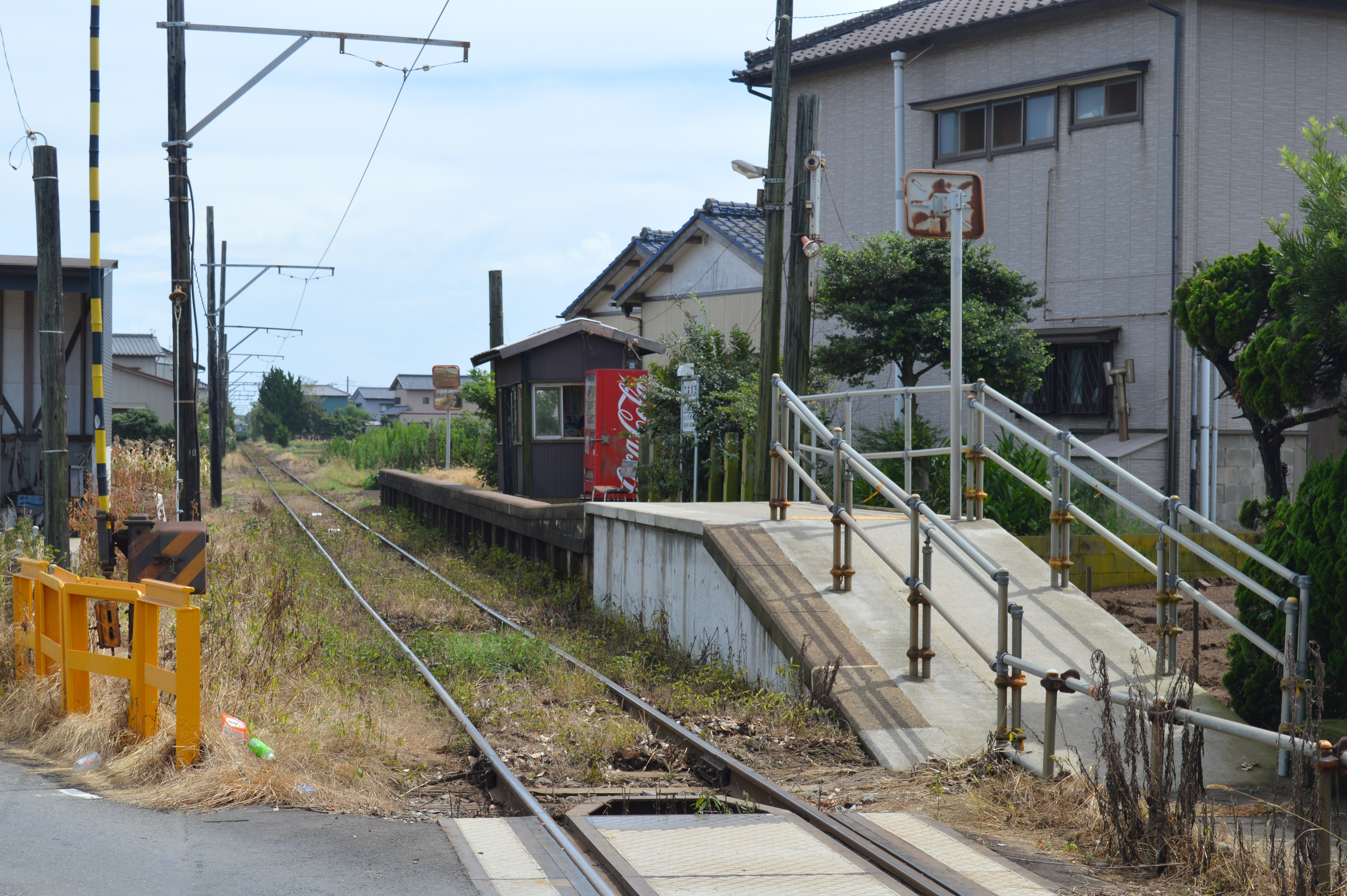 Nishi-Ashikajima Station on the Choshi Electric Railway in Choshi, Chiba, Japan